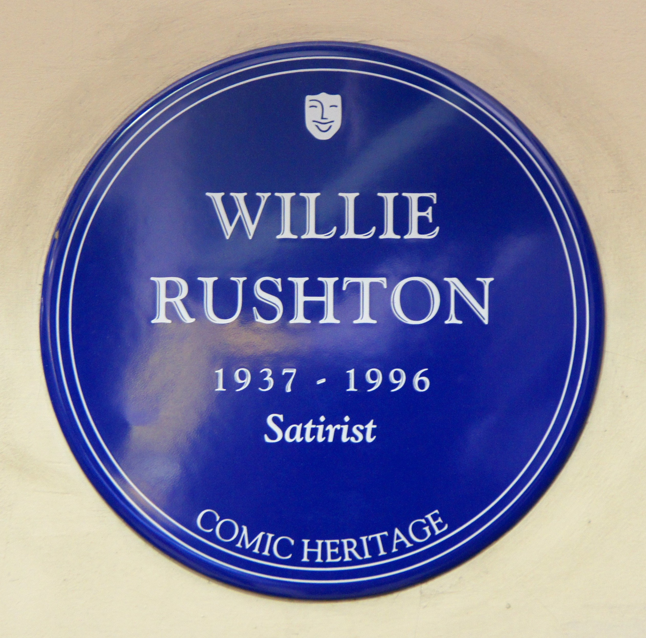 Mornington Crescent again, lovely station. The plaque to Willie Rushton, long serving member of the panel show "I'm sorry I haven't a clue", referencing the game "Mornington Crescent"